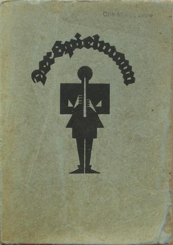 German Songbook "Der Spielmann" from 1922.